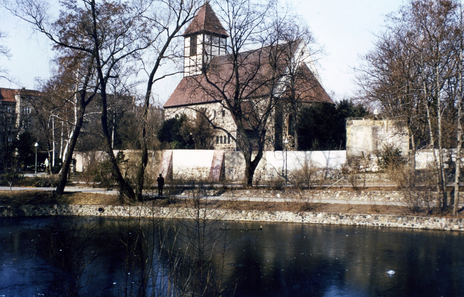 Village church of (Berlin-) Tempelhof, seen from south, situated in the Old Park